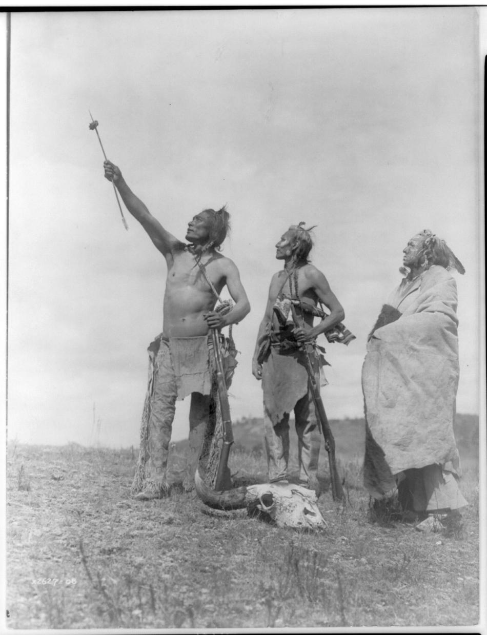 The Oath Apsaroke by Edward S. Curtis depicting three Crow men giving a symbolic Oath. A piece of bison meat was stuck to the end of an arrow while the man spoke the oath. After speaking he touched the meat to his lips and placed it upon a red painted bison skull to show that his words are true.